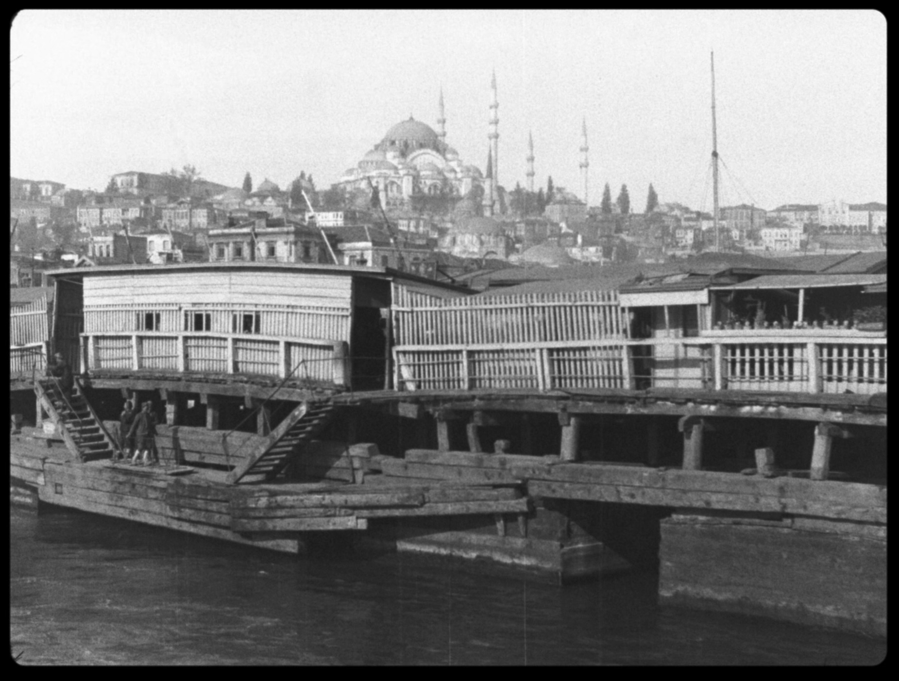 Still from a short film shot by Alexandre Promio, along the Golden Horn in Istanbul, Turkey. Created in April 1897. Screened on August 1897 in Lyon (France) under the title "Constantinople : panorama de la Corne d'or" (source: "Lyon républicain", 29th August 1897). Item number 416 in the Lumière film catalog.